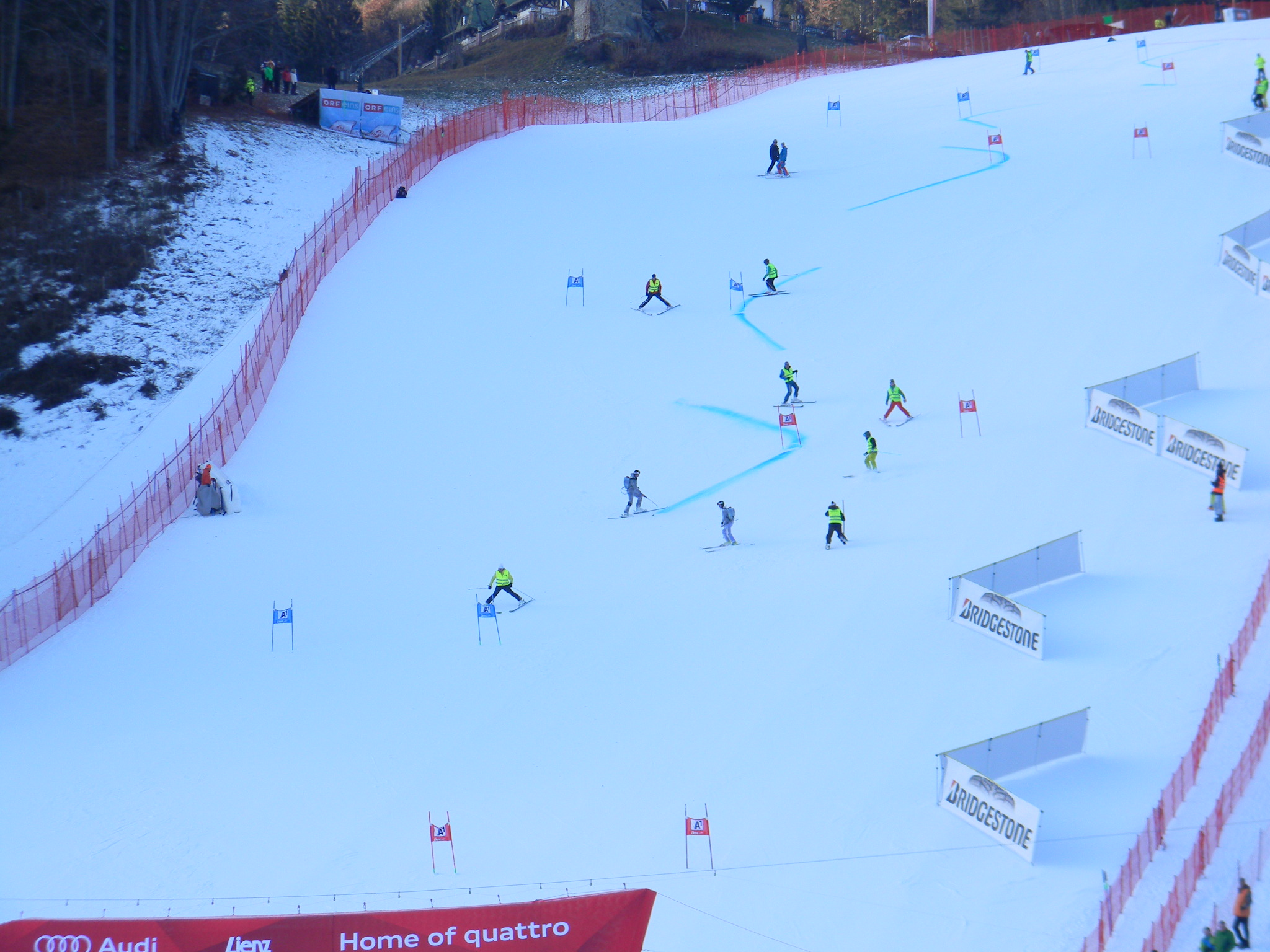 The setting up of the Schlossberg ski track just before the Audi FIS Alpine Ski World Cup Women's Giant Slalom on December 28, 2015 in Lienz, Austria